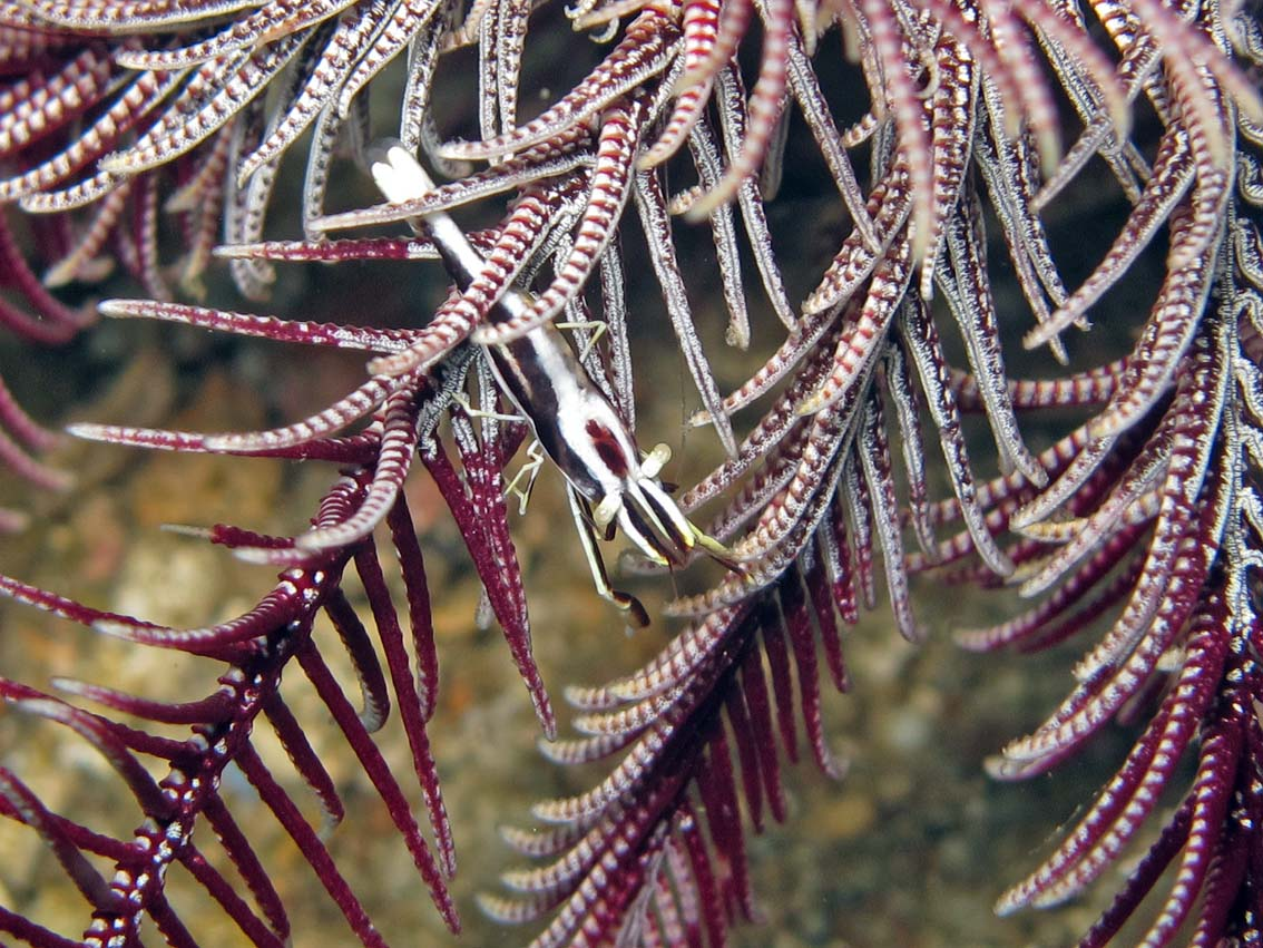 A cleaner shrimp (Periclimenes or Laomenes sp.) on a crinoid.